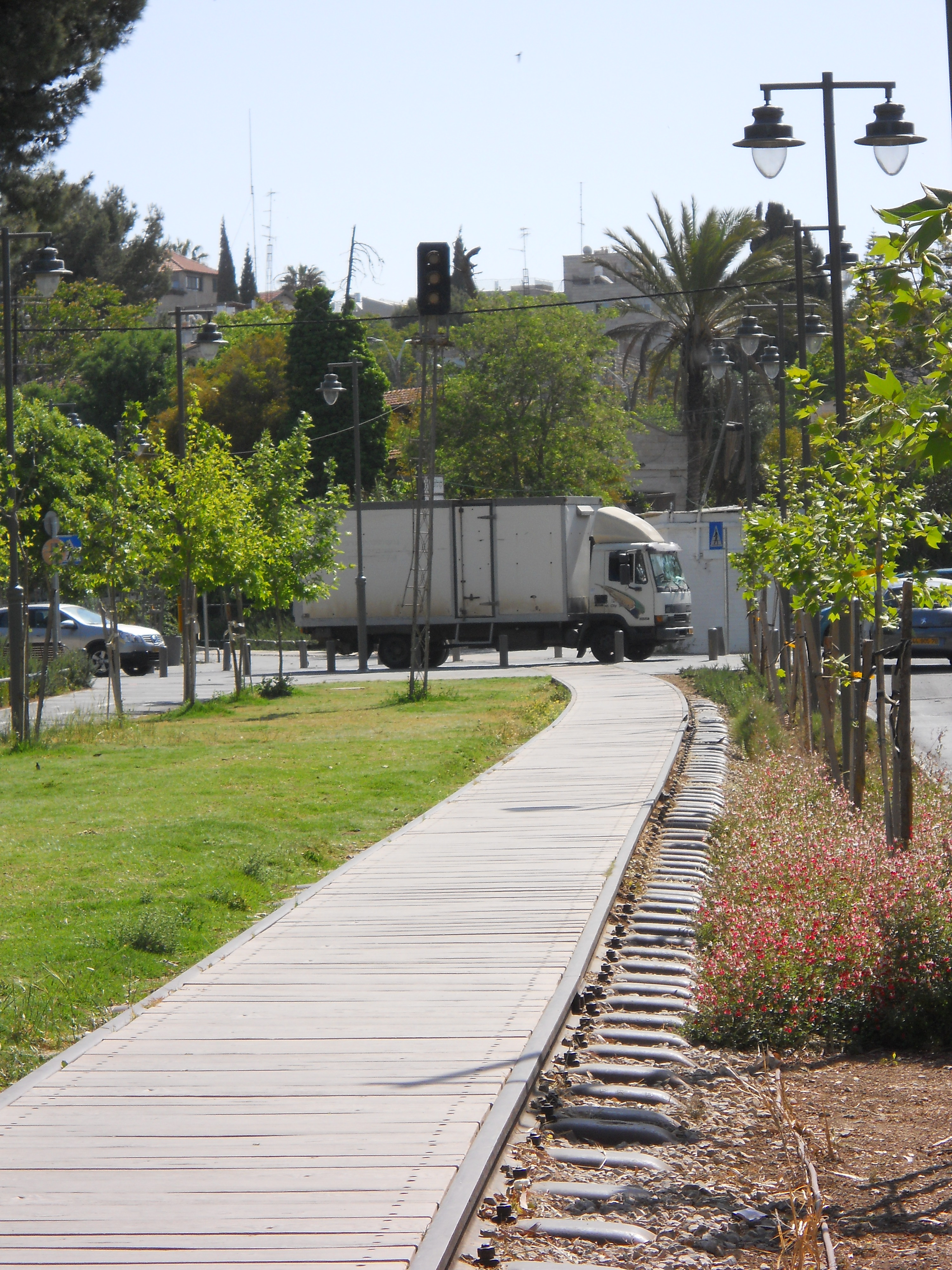 Bak'ah This image was taken as part of the Elef Millim project trip to the Baka (Geulim) neighborhood in Jerusalem, which was held on Friday, 27th April 2012. To view all images uploaded as part of the Elef Millim Project